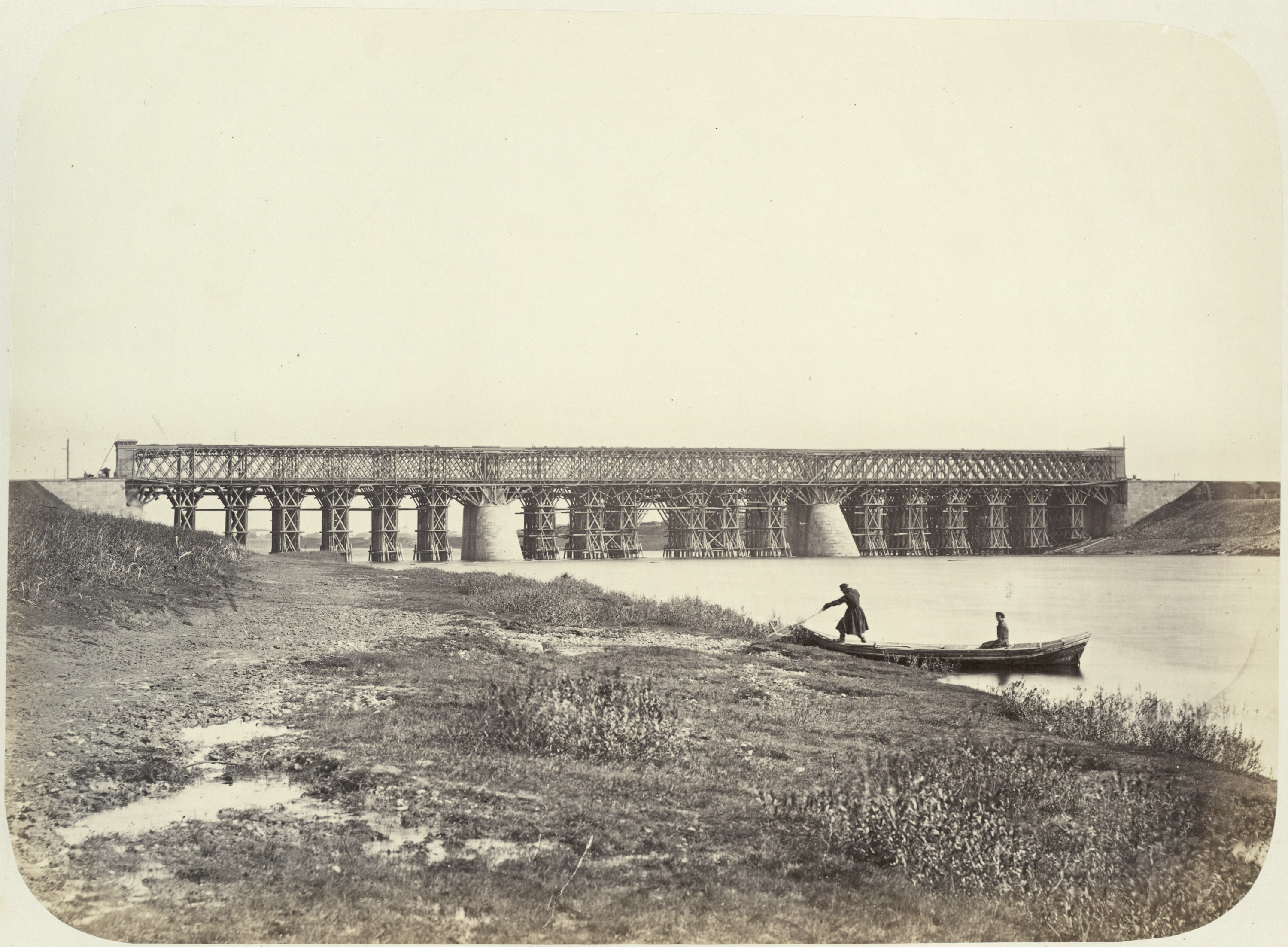 Railway bridge over the Volga on Saint Petersburg-Moscow Railway